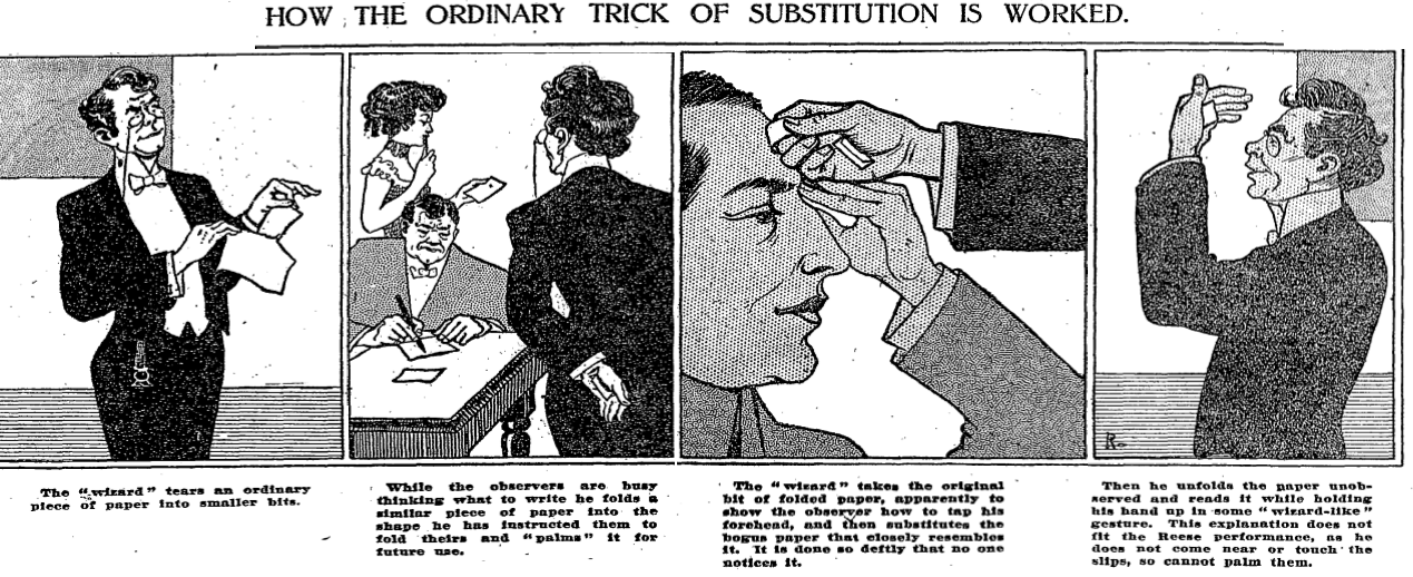 The methods of billet reader, medium Bert Reese.